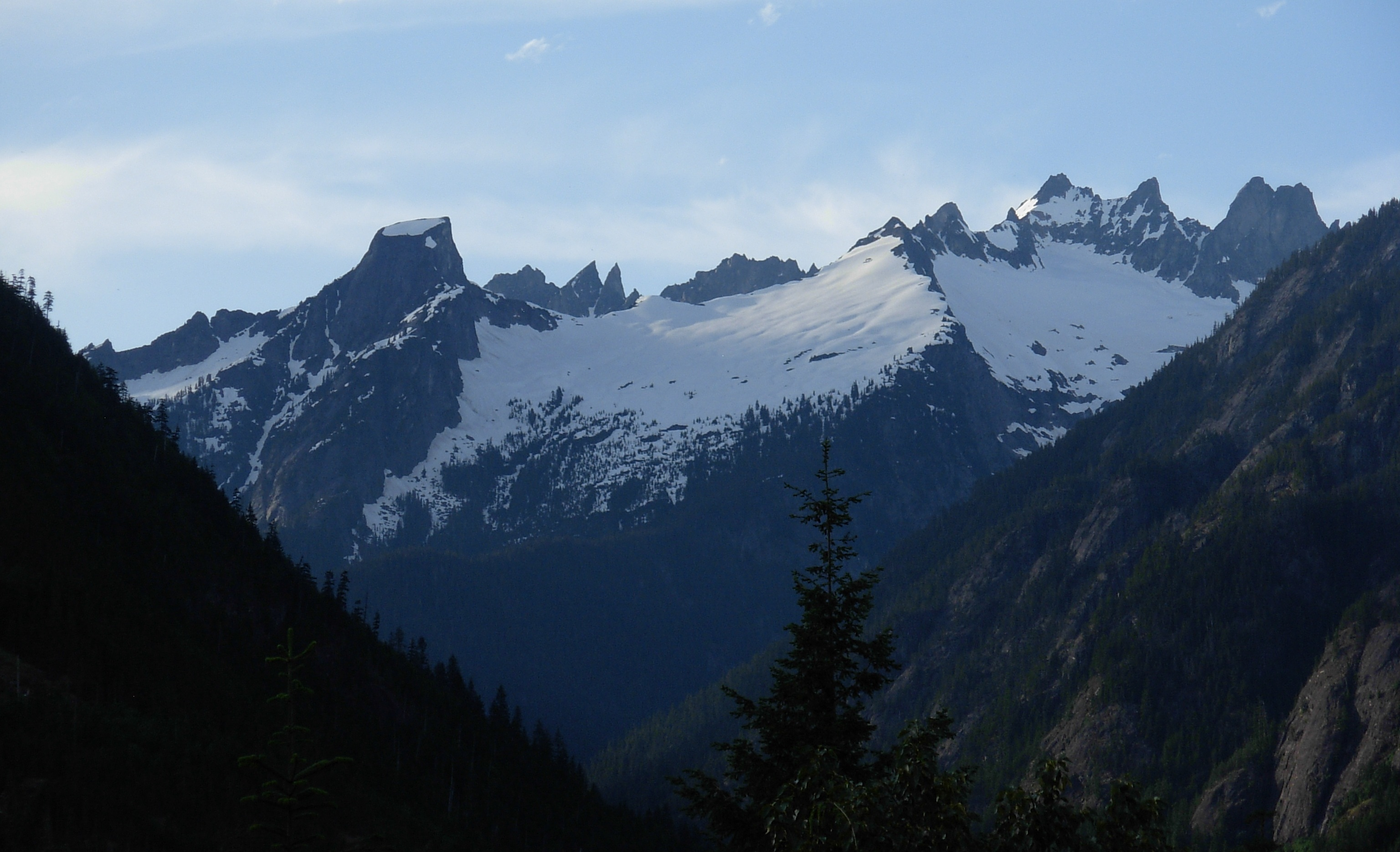 The Picket Range seen from the end of the short boardwalk called the Sterling Munro Trail, behind the North Cascades Visitor Center, Newhalem, Washington, USA. Visible peaks include Mount Terror (8,151 feet or 2,484 metres) and Mount Degenhardt (8,004 feet or 2,440 metres)